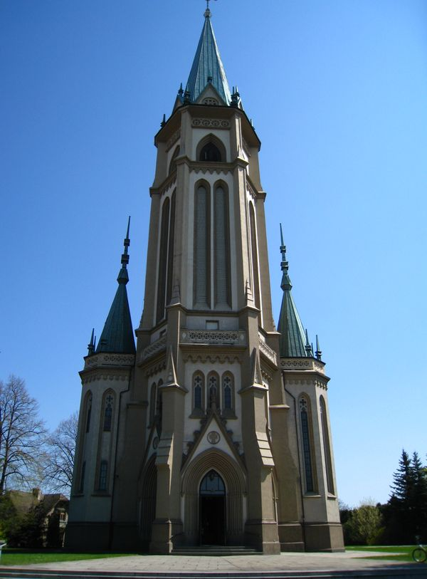 Church in Wilamowice PL